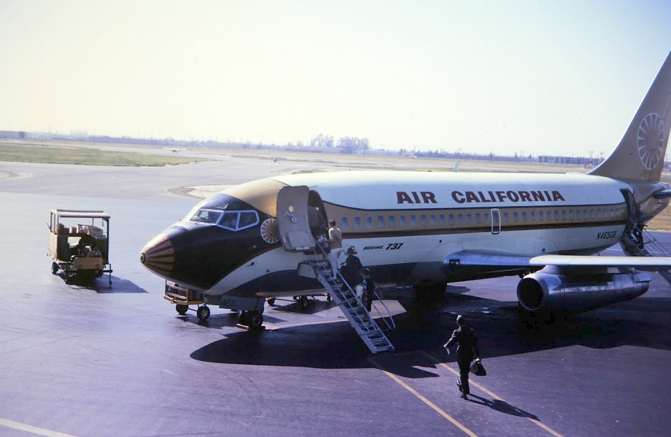 Air California B737-200 at Orange County Airport in 1969